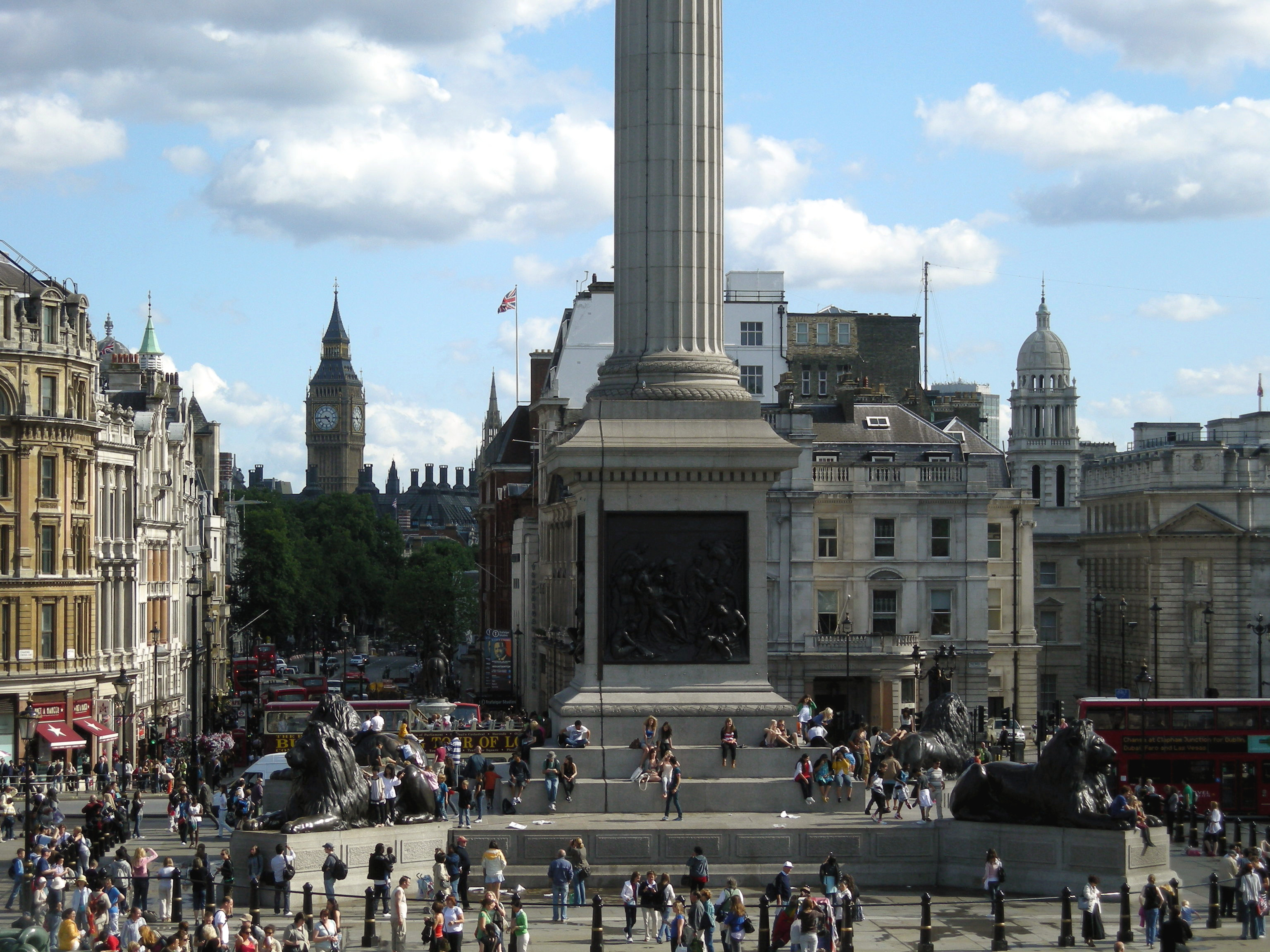 Trafalgar Square from National Gallery with view on Clock Tower.